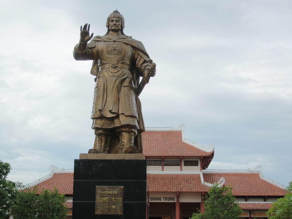 Quang Trung Museum at Tay Son district, Binh Dinh province, Vietnam